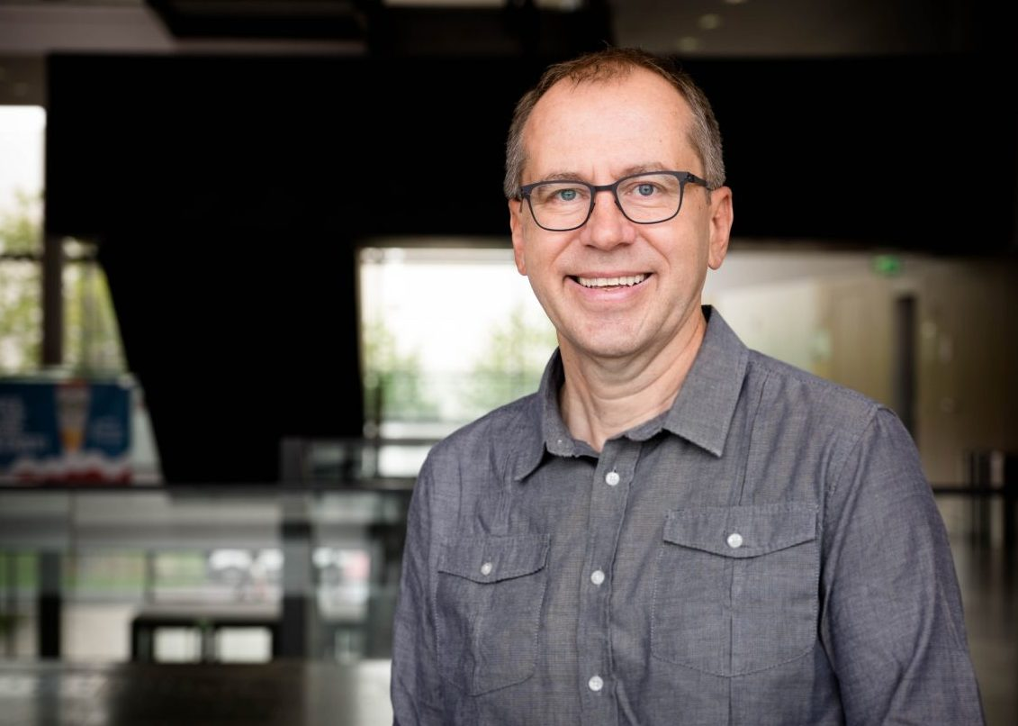 Thomas Lemke, August 2019